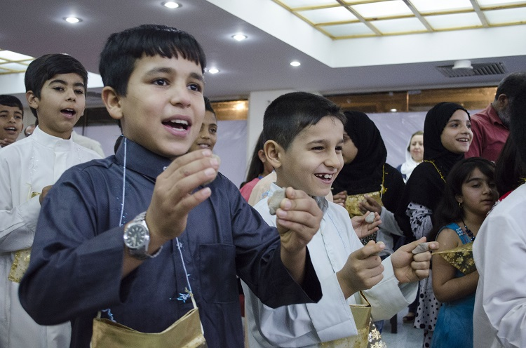 Gargee'an celebration in Museum of Contemporary Art, Ahwaz